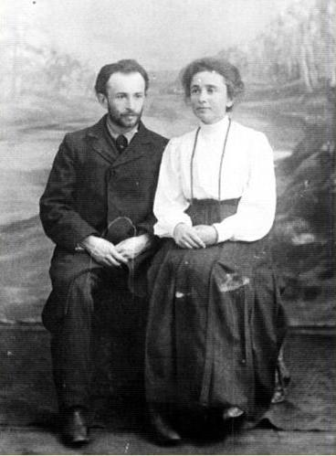 Boris Tzetlin (Baturskiy), Russian social-democrat and trade-union activist